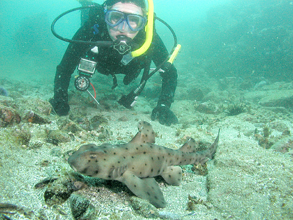 Diver and Horn Shark, Anacapa, Channel Islands, California. Image taken by Clark Anderson/Aquaimages.